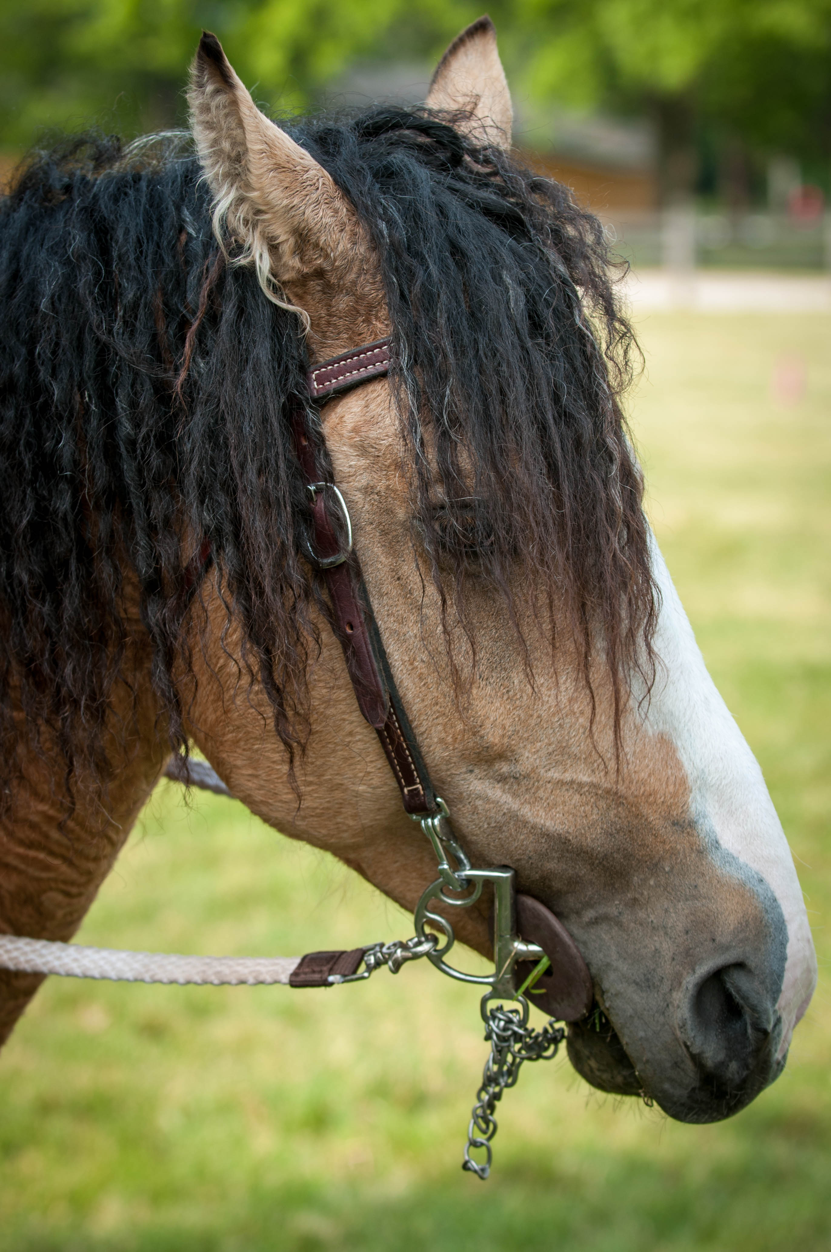 North American Curly Horse